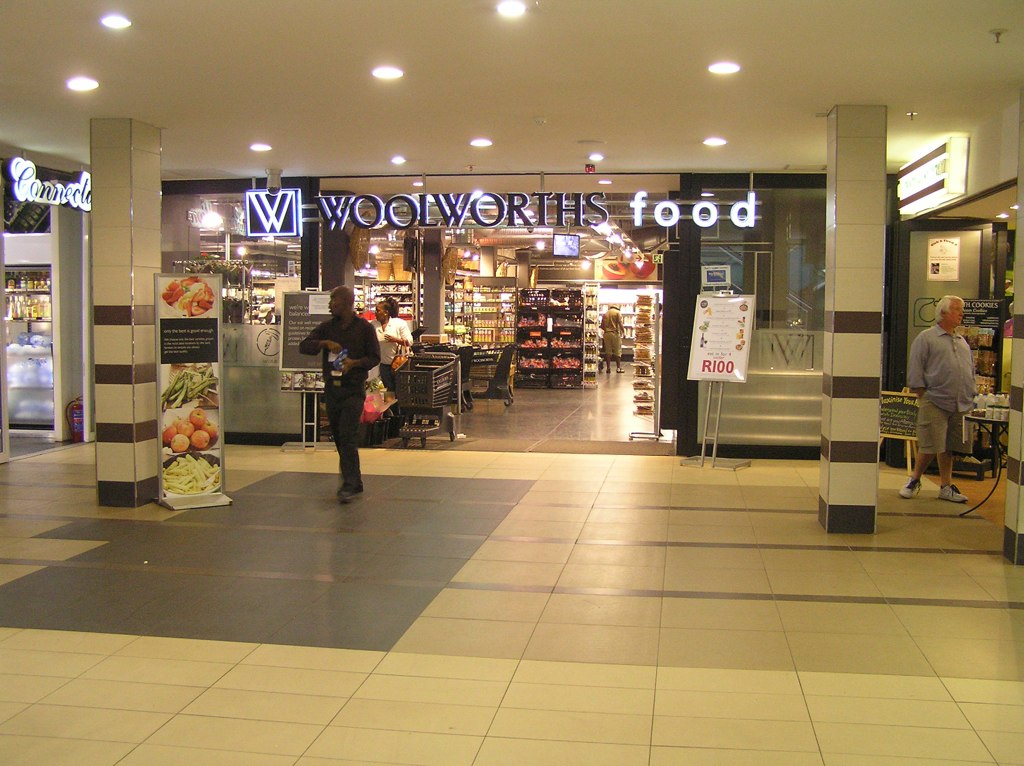 Woolworths Benmore Gardens shopping center. Johannesburg, South Africa